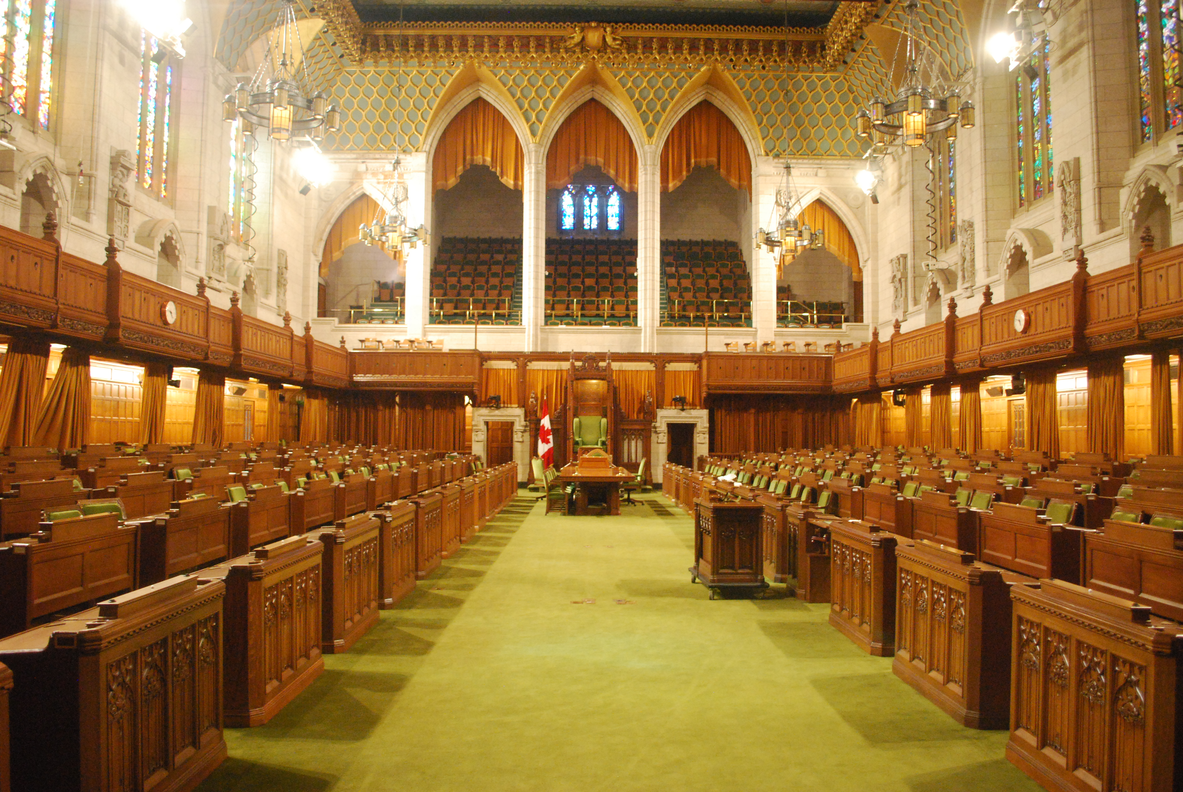 Hall of the House of Commons, of the Canadia Parlianment, in Ottowa